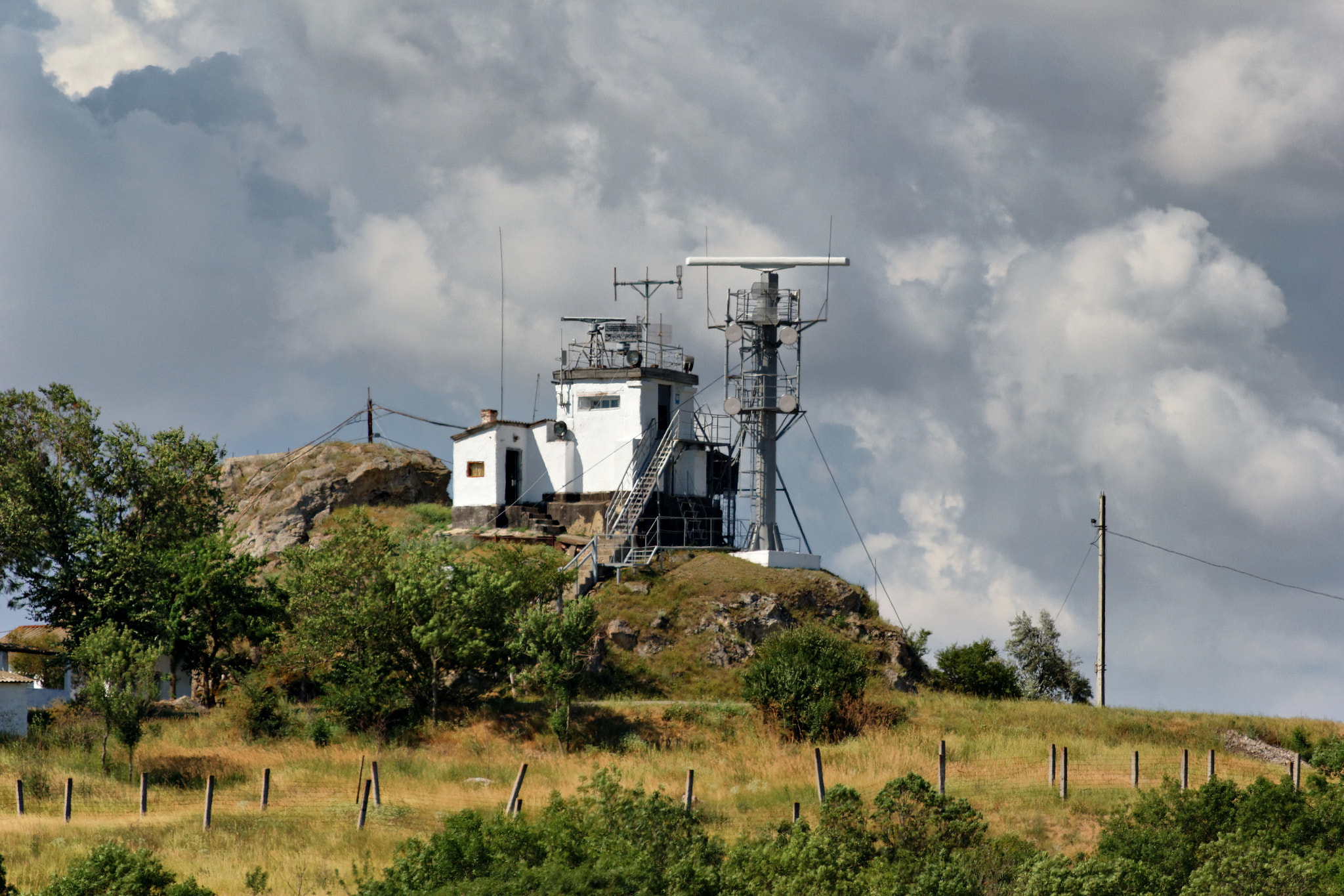 Kerch. Fortress Kerch. Radar and visual-observation post